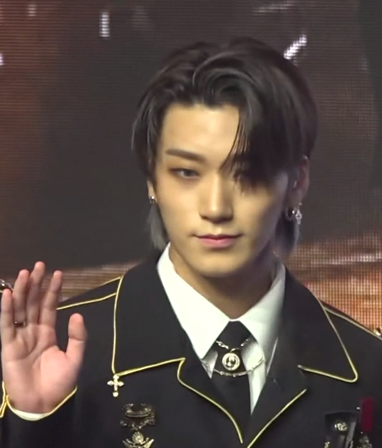 Choi San